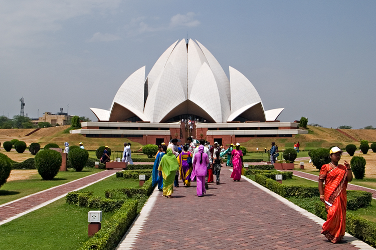 Bahai House of Worship, Delhi/India own photo, may 25, 2005 photo: nomo/michael hoefner